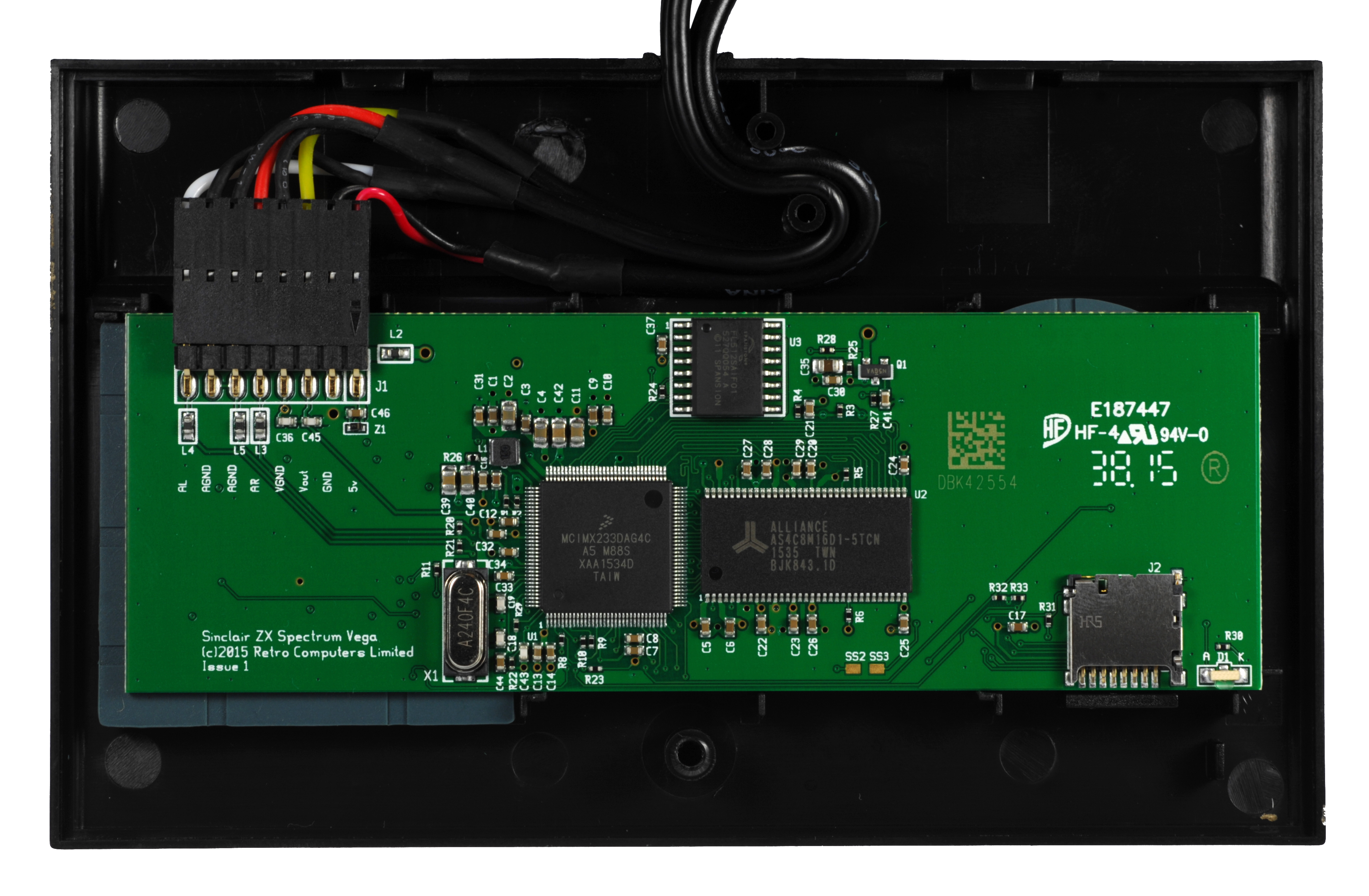 The back of the motherboard inside the ZX Spectrum Vega TV Game Console, made by Retro Computers.